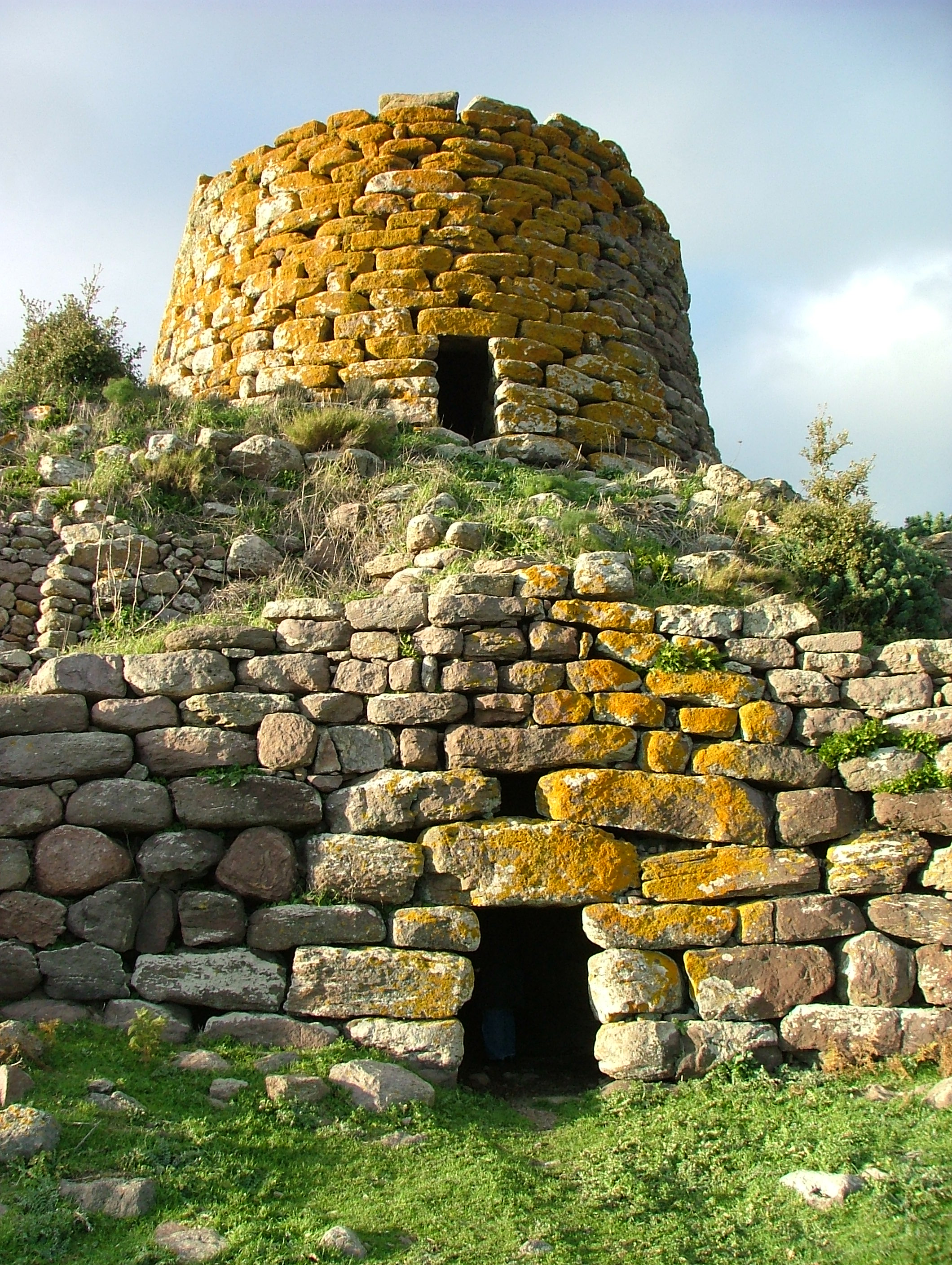 Nuraghe Orolo, Bortigali (Italy)